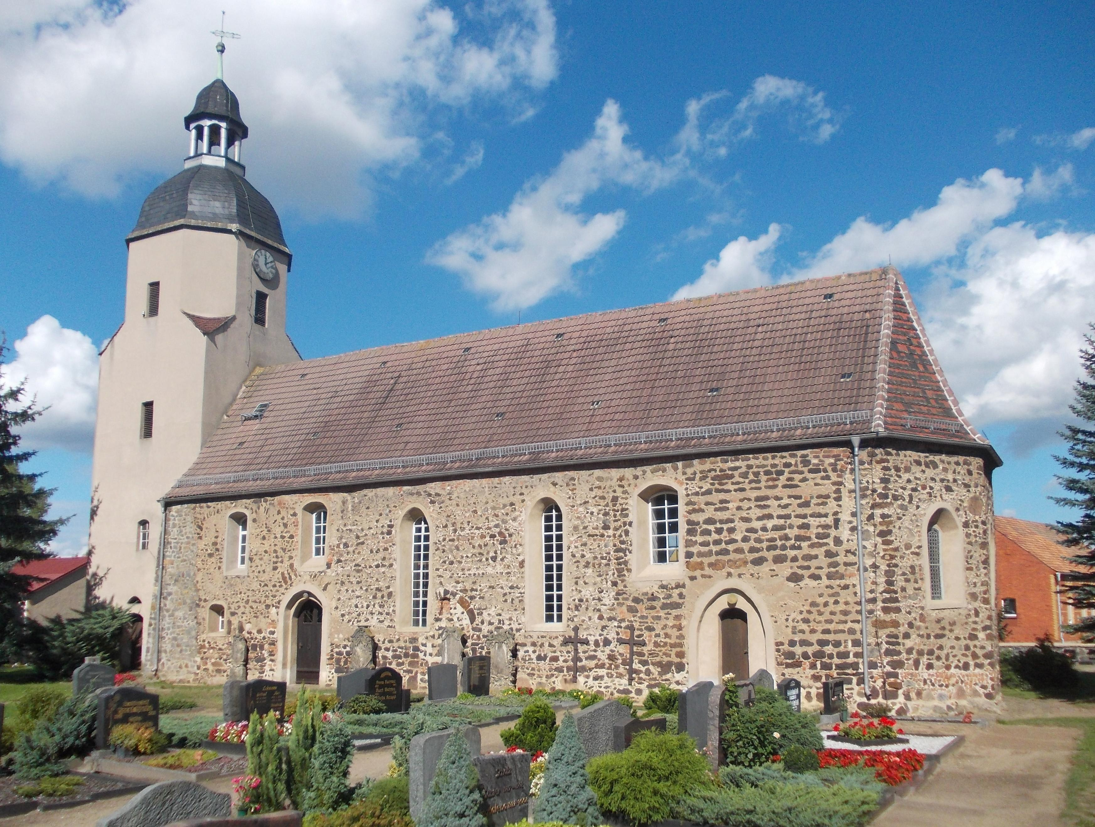 Schmerkendorf church (Falkenberg/Elster, Elbe-Elster district, Brandenburg)